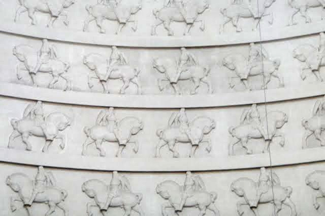 Inside Monument to the Battle of the Nations in Leipzig, Germany.